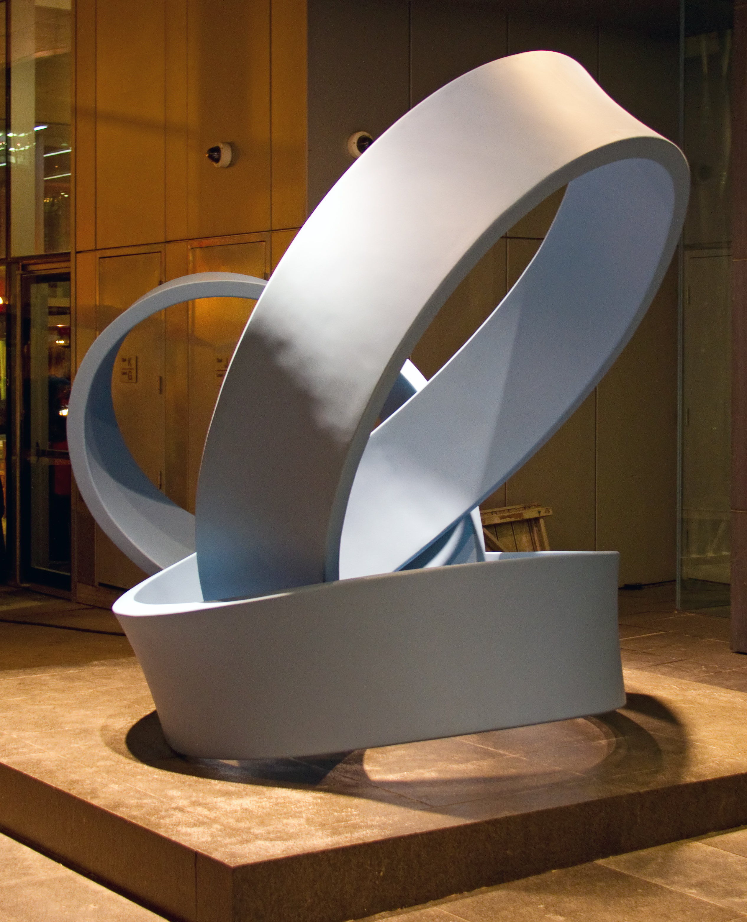 Public sculpture Things End by James Carl. Installed outside the Festival Tower condominium, Toronto.